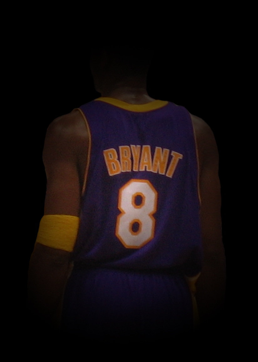 Kobe Bryant